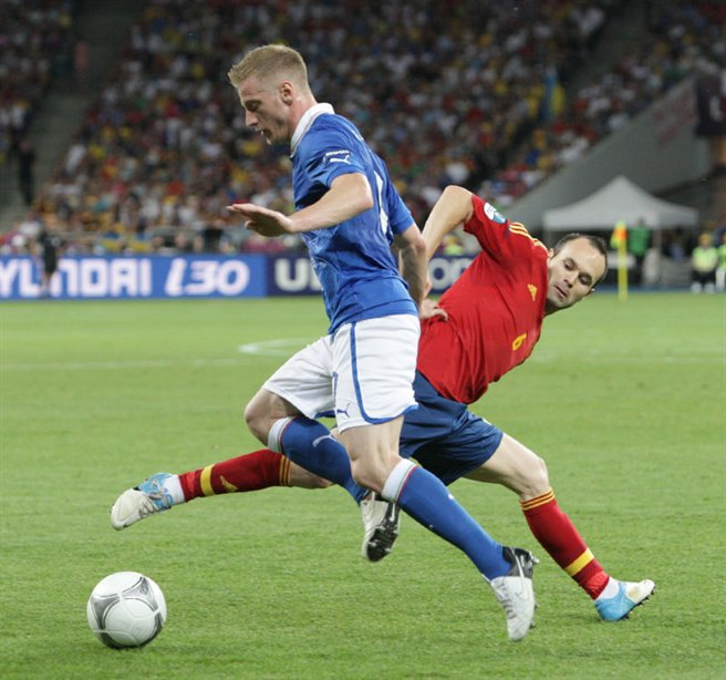 Ignazio Abate and Andrés Iniesta at Euro 2012 final Spain-Italy